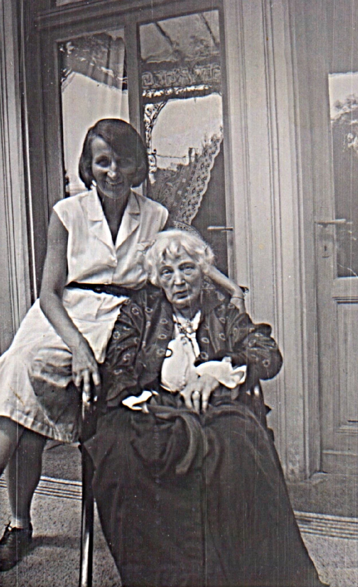 Mrs. Fernanda Fahlberg, born Wall (1860 - 1932) and daughter Constanze (1888 - 1980), Nassau, Germany about 1931